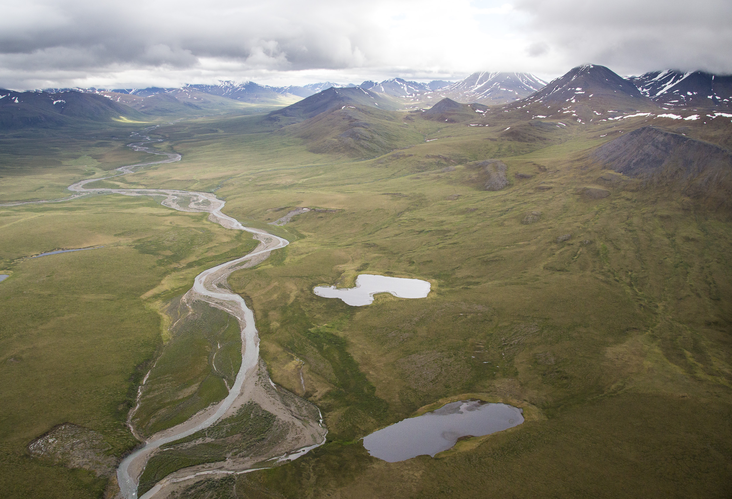 The Central Arctic Management Area - a BLM Wilderness Study Area - sits between NPRA and Gates of the Arctic National Park in Alaska. This little known 320,000-acre (130,000 ha) area is starkly beautiful and made up of rolling tundra and snow covered peaks. Photos by Bob Wick, Wilderness Specialist for the BLM’s National Conservation Lands